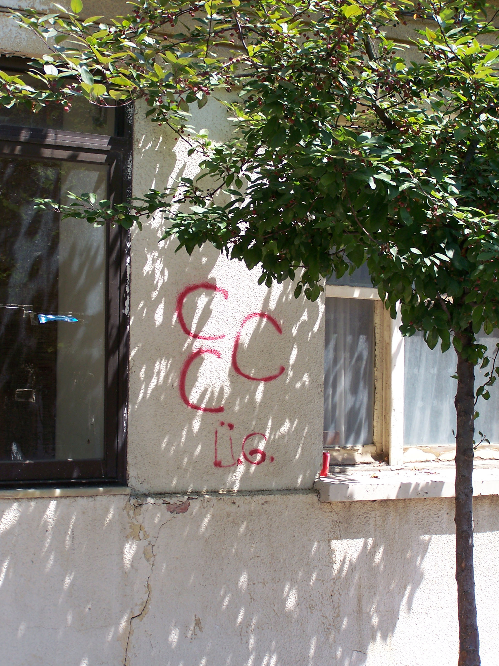 Wall inscription made by MHP (Milliyetçi Hareket Partisi, Nationalist Action Party) youth wing Ülkücü Gençler (Idealist Youth) supporters in Heybeliada, Turkey